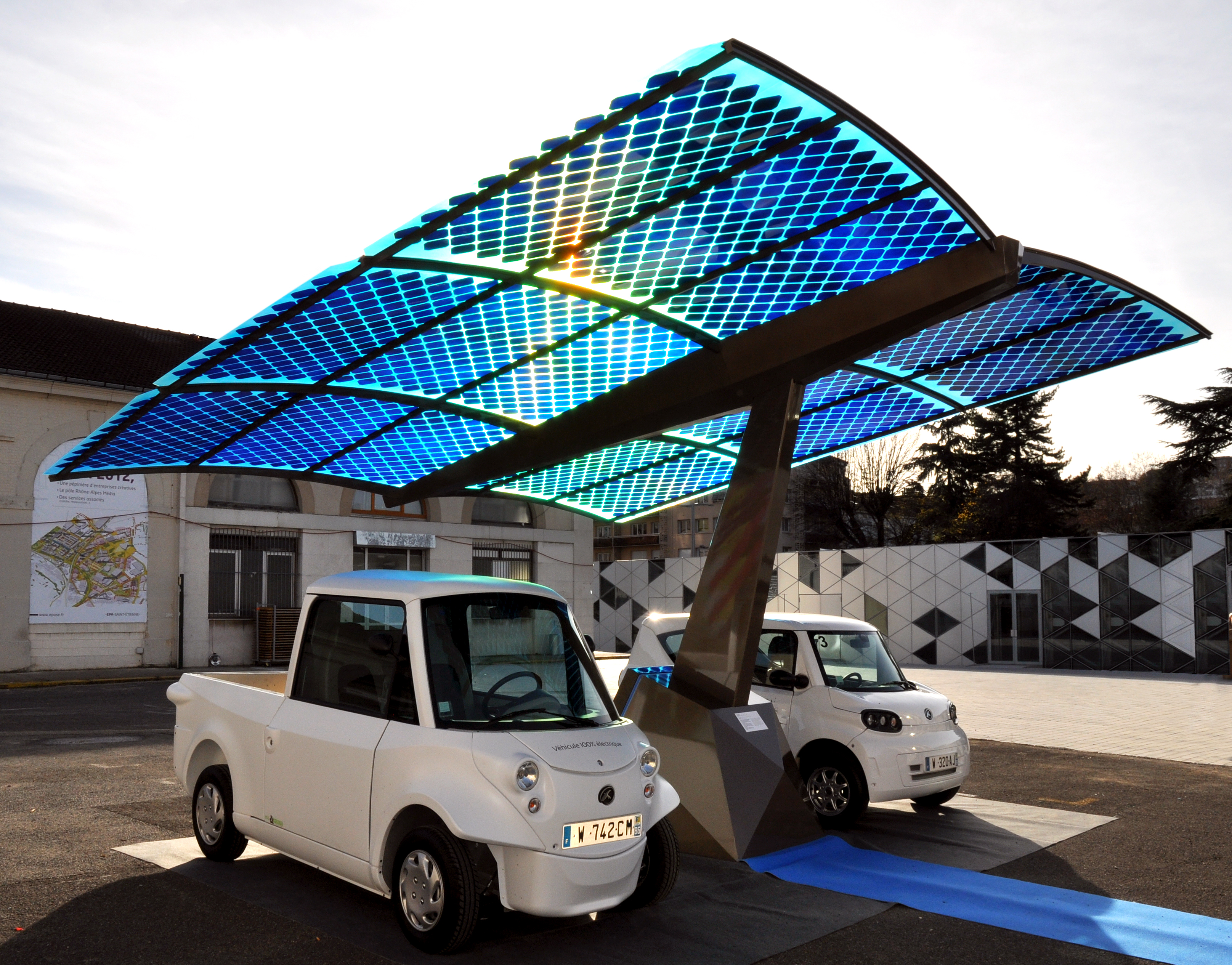 Photovoltaic sunshade 'SUDI' is an autonomous and mobile station that replenishes energy for electric vehicles using solar energy.